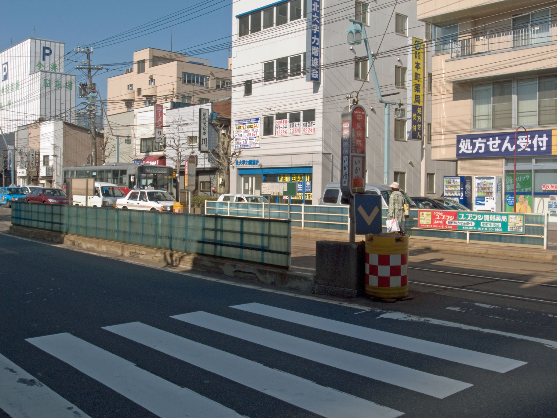 Chuo-Byoin-Mae station in Hakodate tram, Hokkaido, Japan